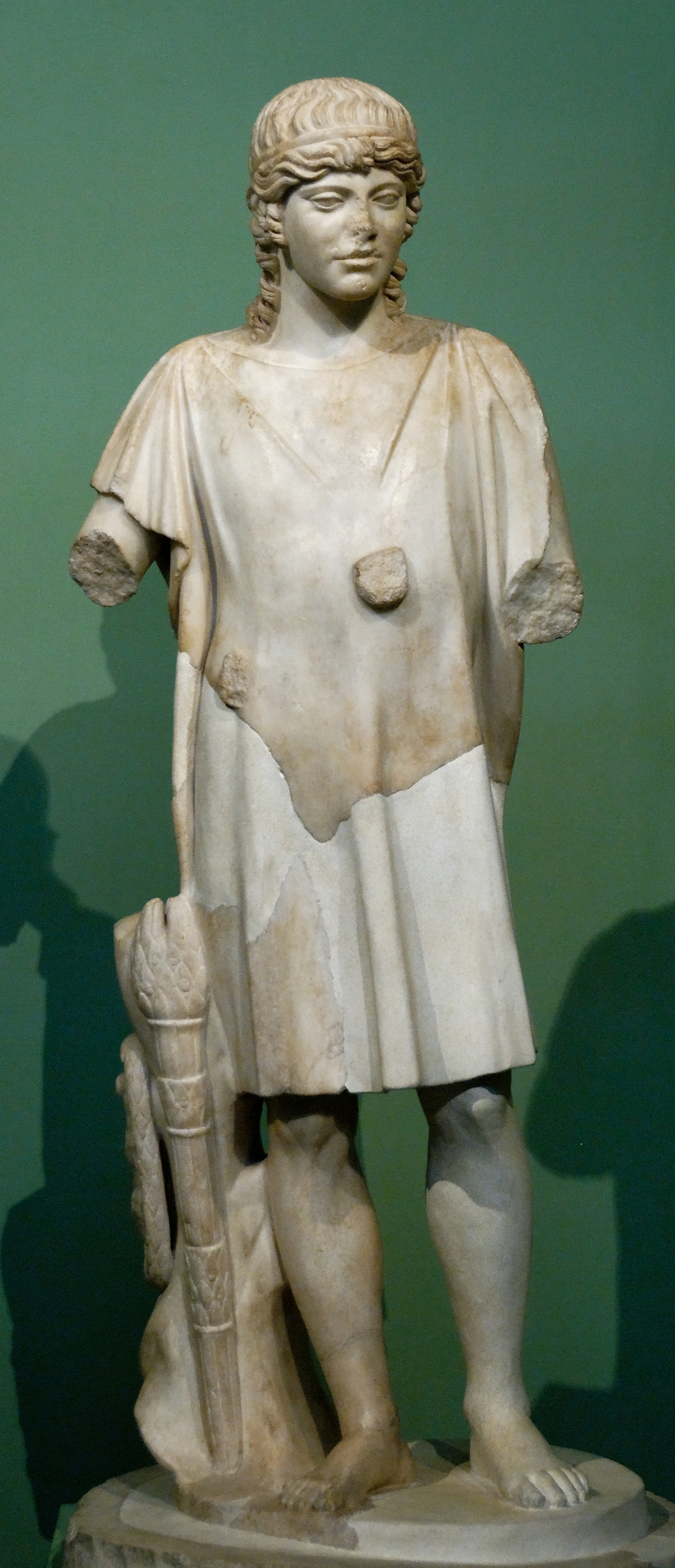 Young boy with a myrtle crown and torch, related to the Eleusinian Mysteries. Greek insular marble, Roman copy of the 2nd century AD after a Peloponnesian original of the 5th century BC. From the villa of Fulvius Plautianus, Rome, 1901.